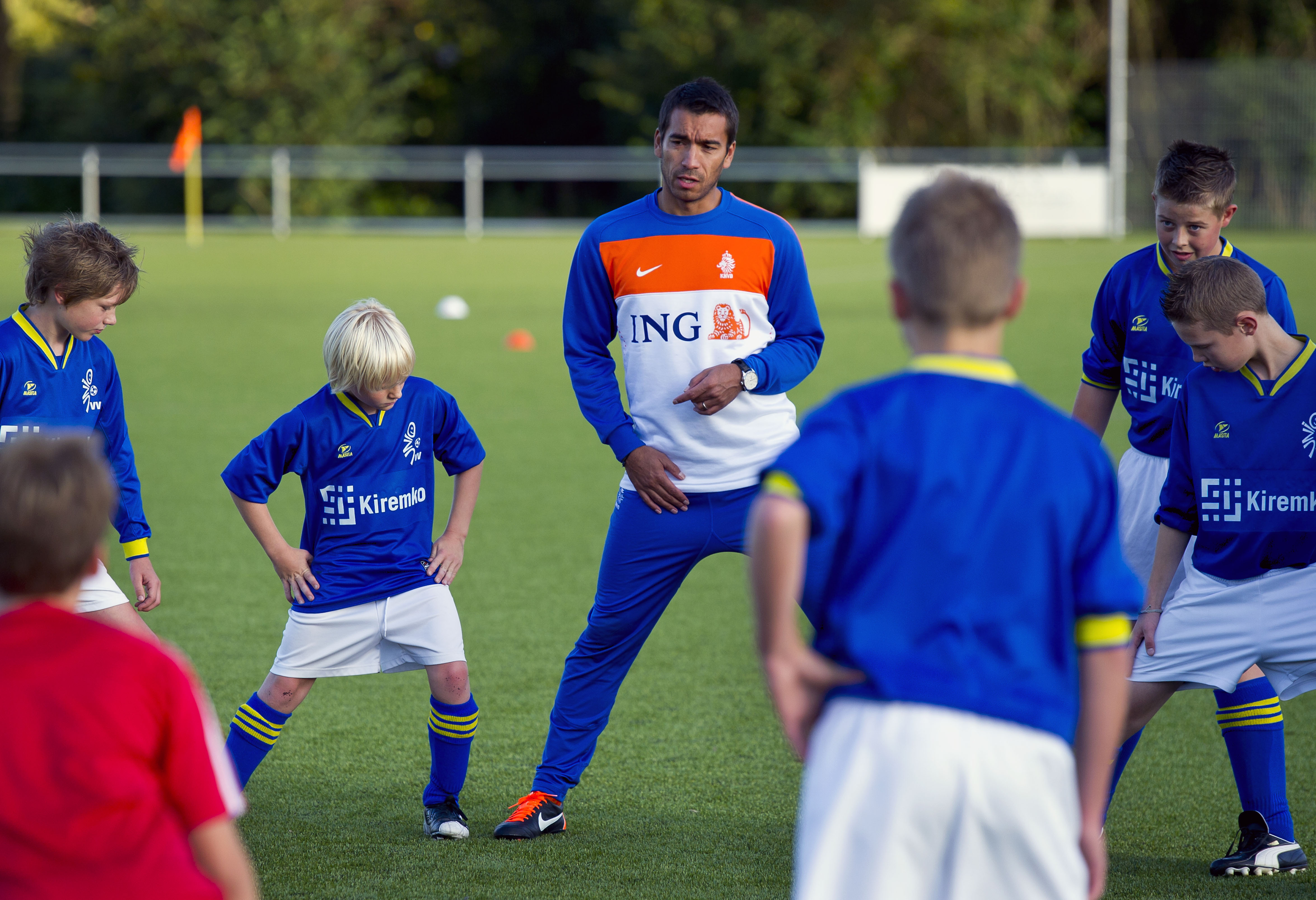 Giovanni Van Bronckhorst doing some coaching